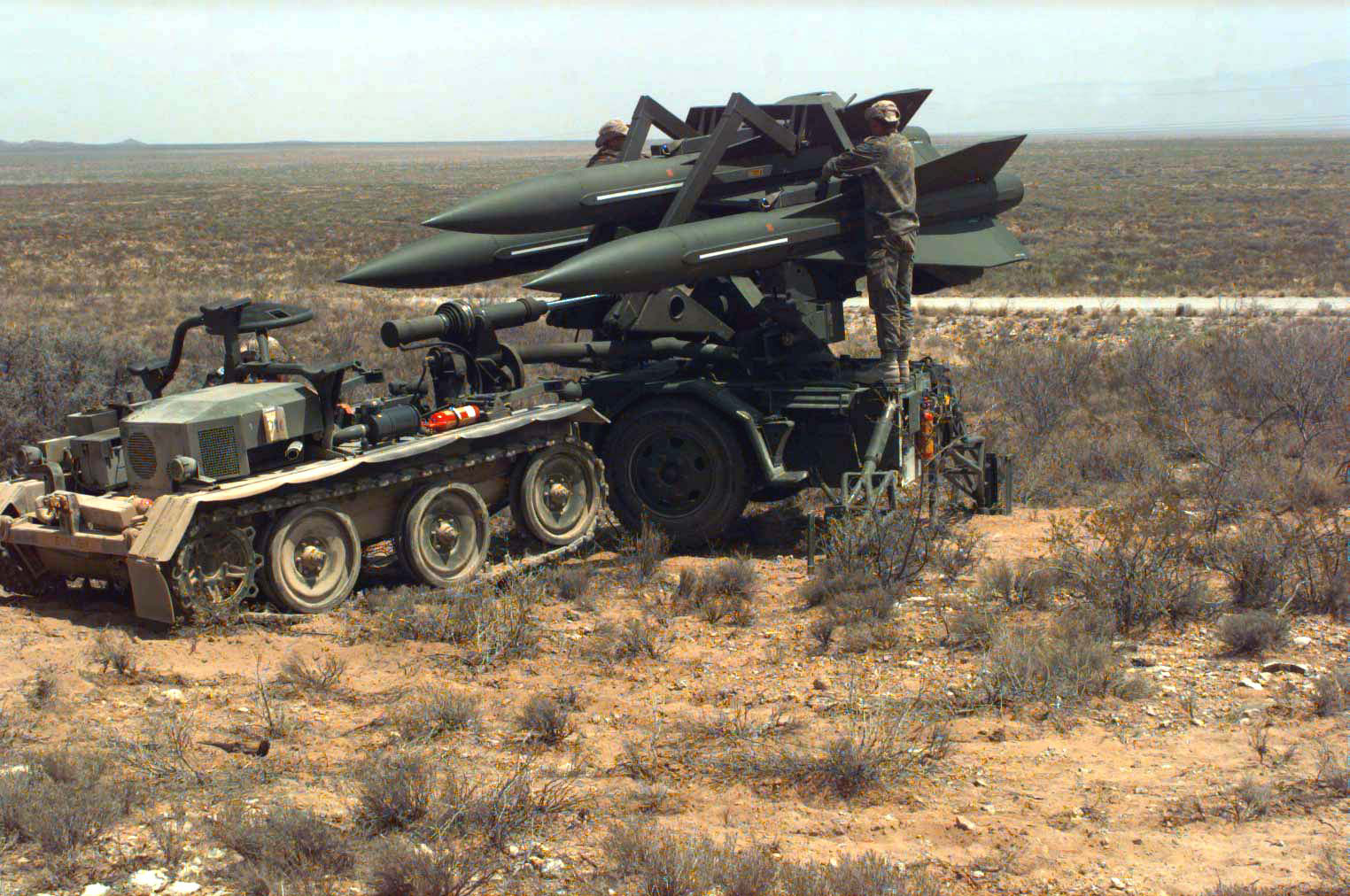 Members of the German 88th Element of Light Air Defense Artillery Battery prepare a Hawk missile unit for an emergency missile transfer at McGregor Reservation, N.M., during exercise Roving Sands '96 on June 6, 1996.